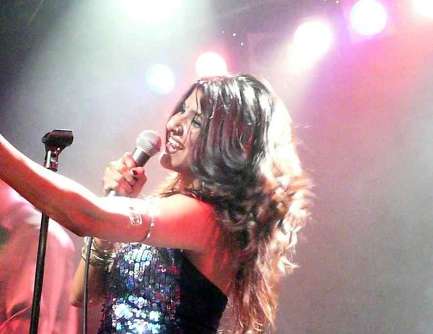 Mehnaz Hoosein, singing in the band Manooghi Hi, taken in Seattle on 3/4/2011 at Neumos